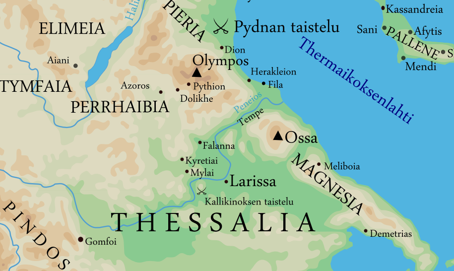 Ancient Greece and Macedonia during Third Macedonian War